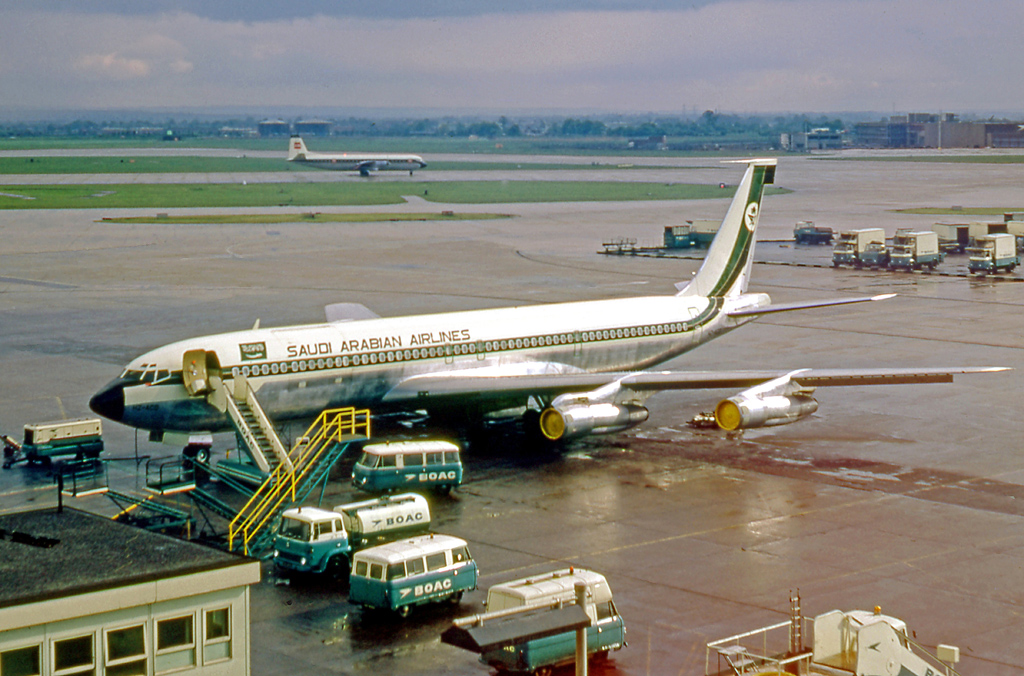 Boeing 707-368C HZ-ACD of Saudi Arabian Airlines at London Heathrow in 1969